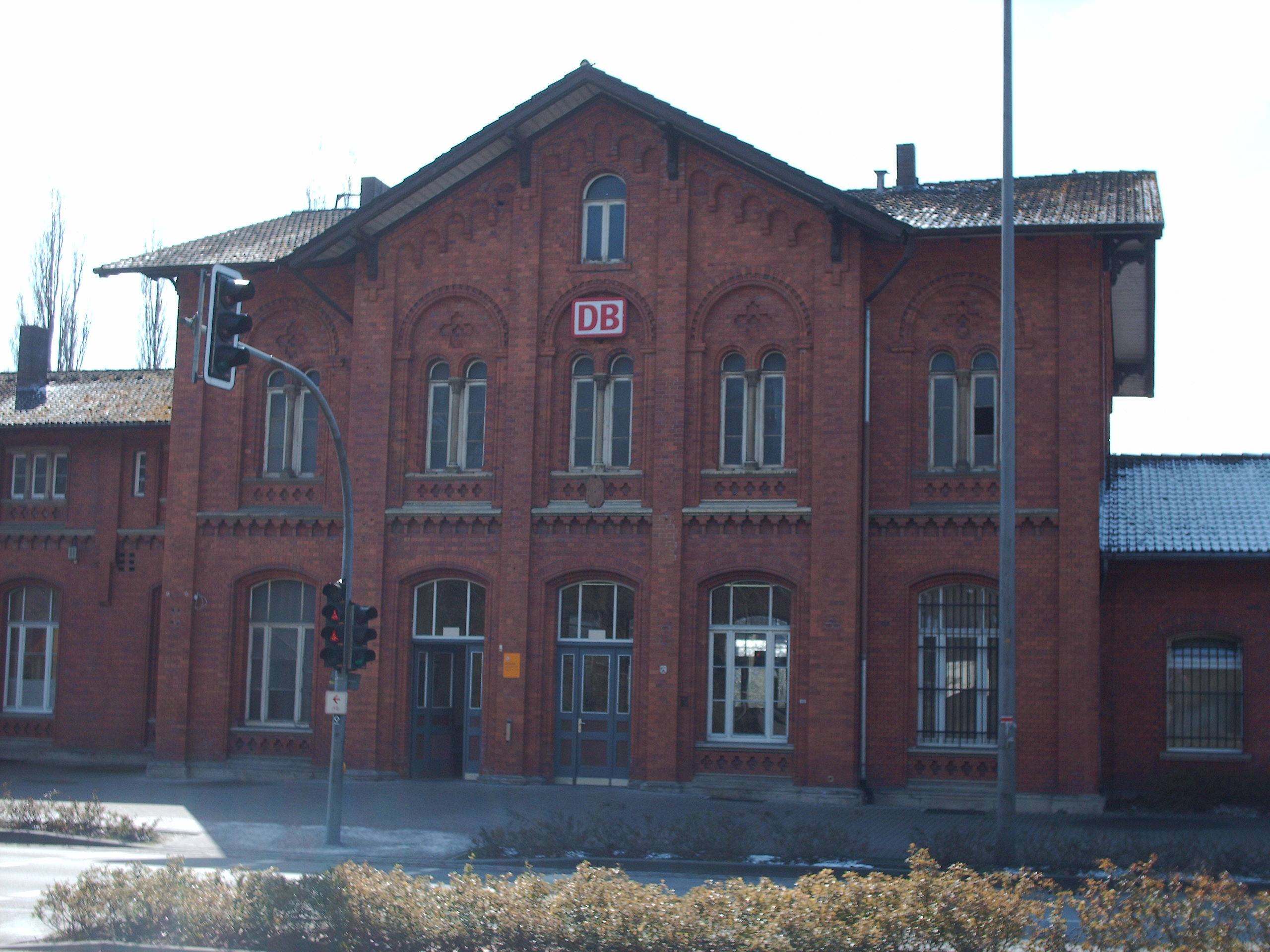 Bad Salzuflen station, Bad Salzuflen, Germany check usage